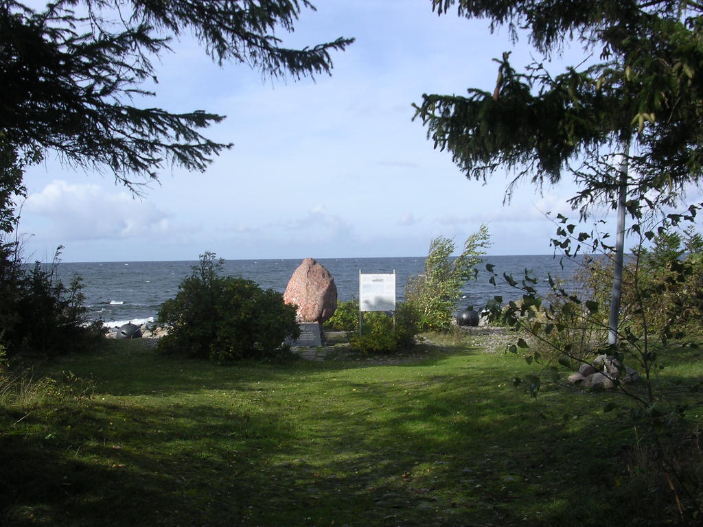 Juminda monument